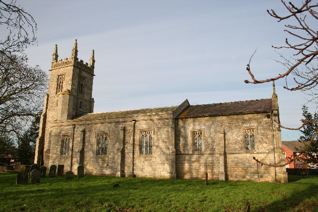 St.Peter's church, Stixwould, Lincs. Largely rebuilt in 1831, containing fragments from nearby Stixwould Priory and a marvellous late 14th century font